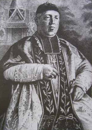 Jean-Baptiste Pallegoix